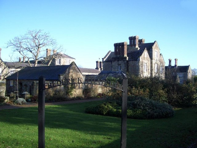 Former Hospital & Poor Law Institution, Battle The complex was built in 1840 in the Tudor Gothic style and is now Grade II listed. It has a rectangular courtyard accessed through the gatehouse on the south side (shown separately). The buildings became a hospital in 1948 which closed in the late 1990s. The later conversion to residential accommodation is now known as Frederick Thatcher Place.